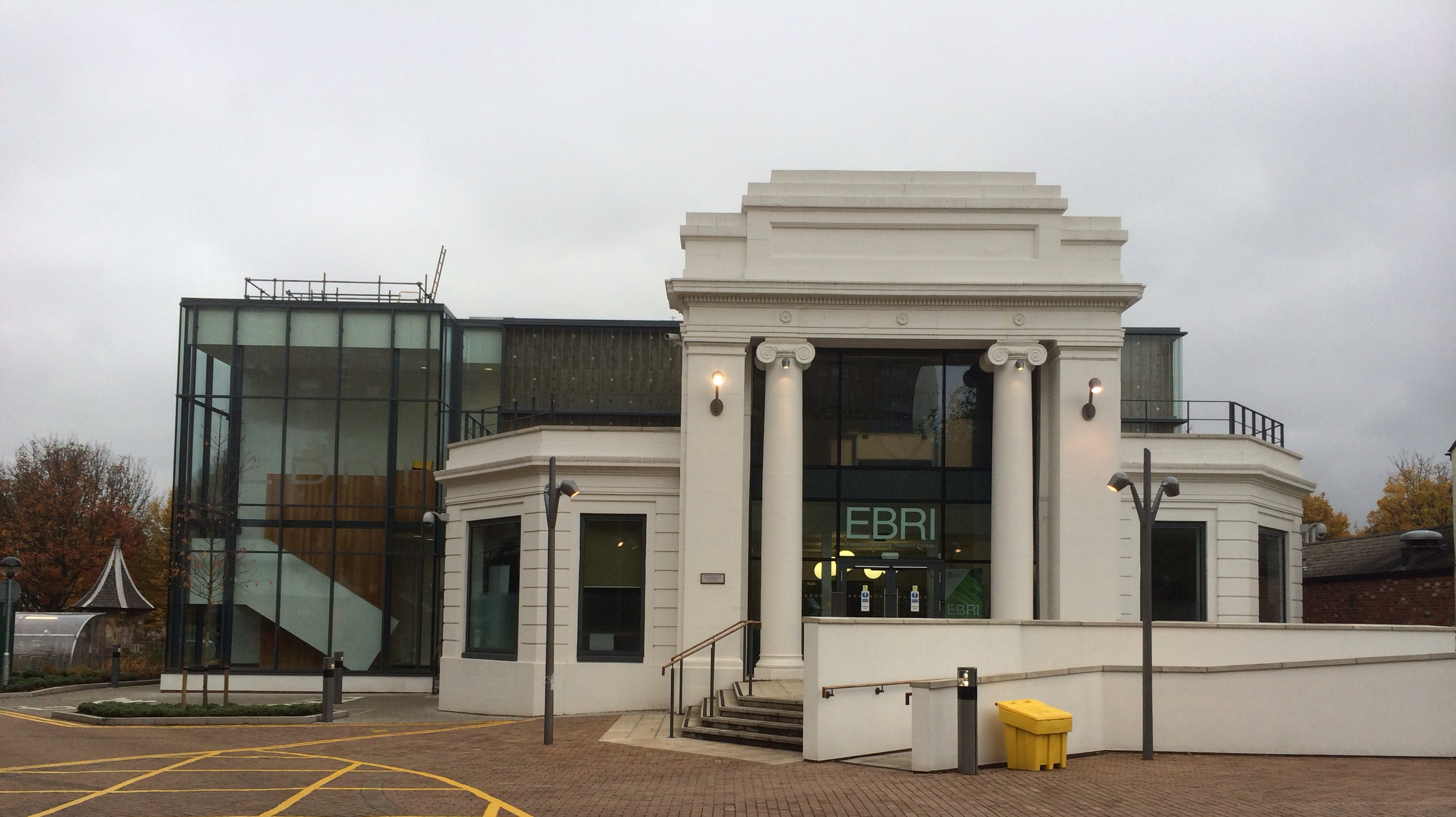 EBRI Building, Aston University